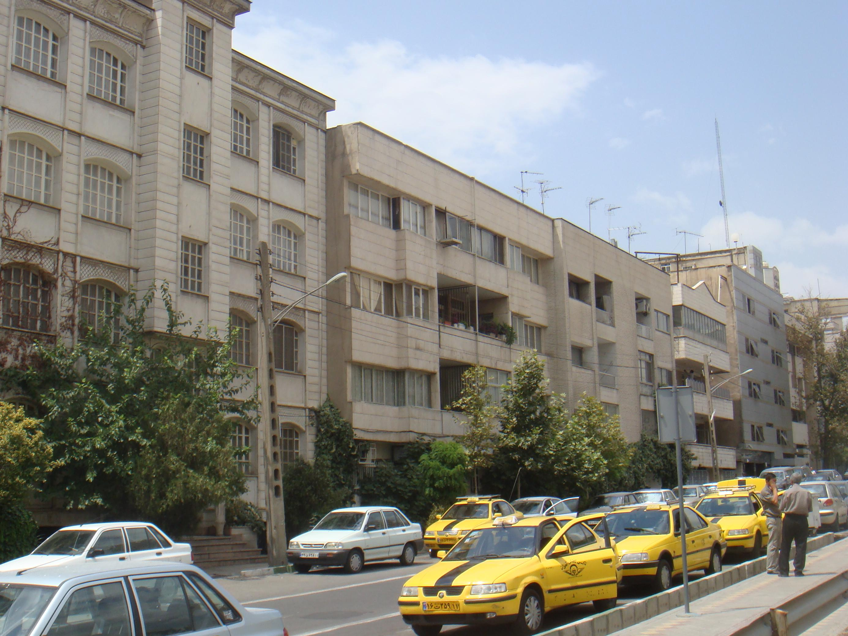 Taxi (Samand models) in Tehran